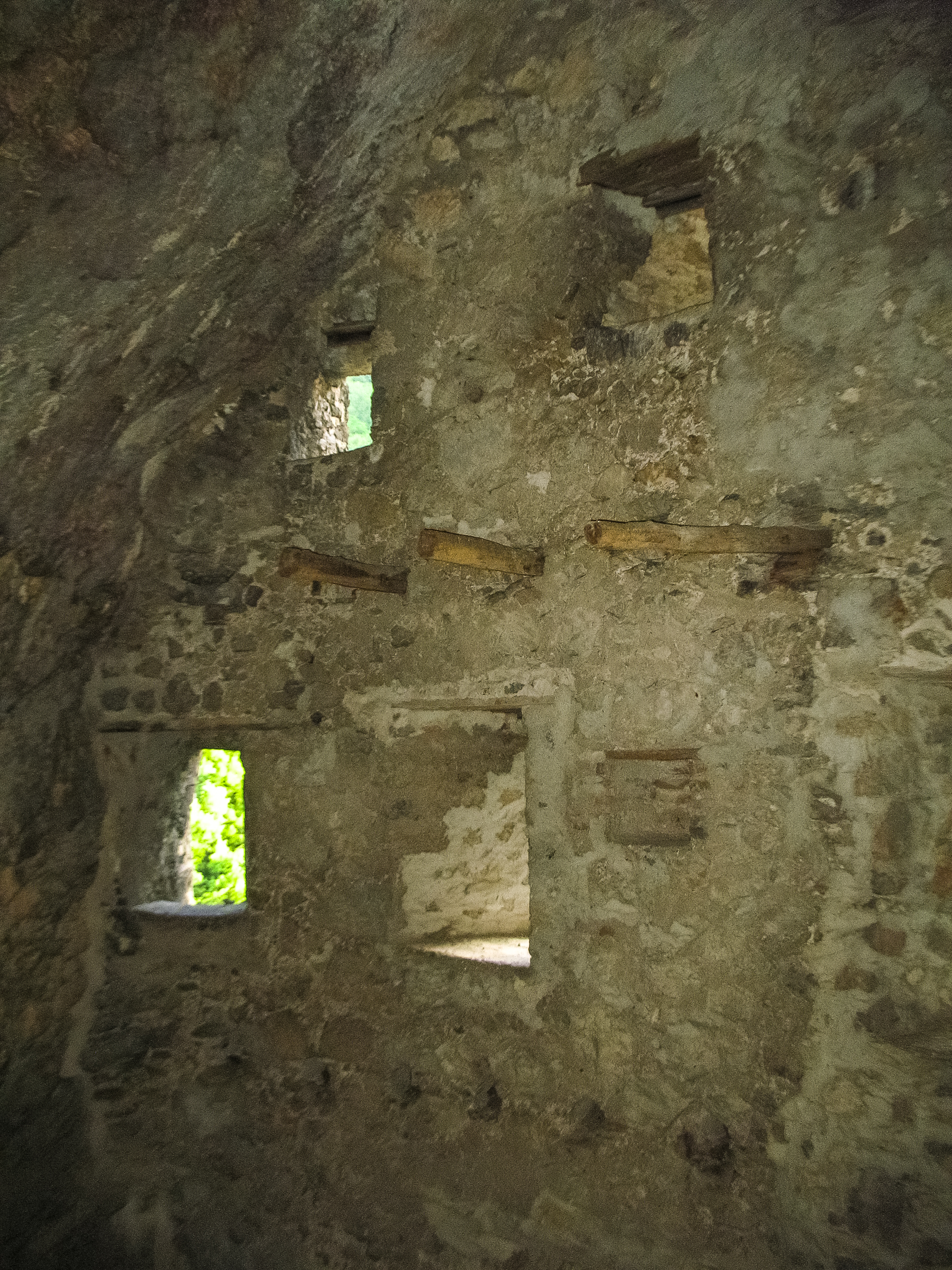 Monastery of Annunciation in Gorge Gornjak,near Petrovac,Serbia.Interior of cave dormitory.